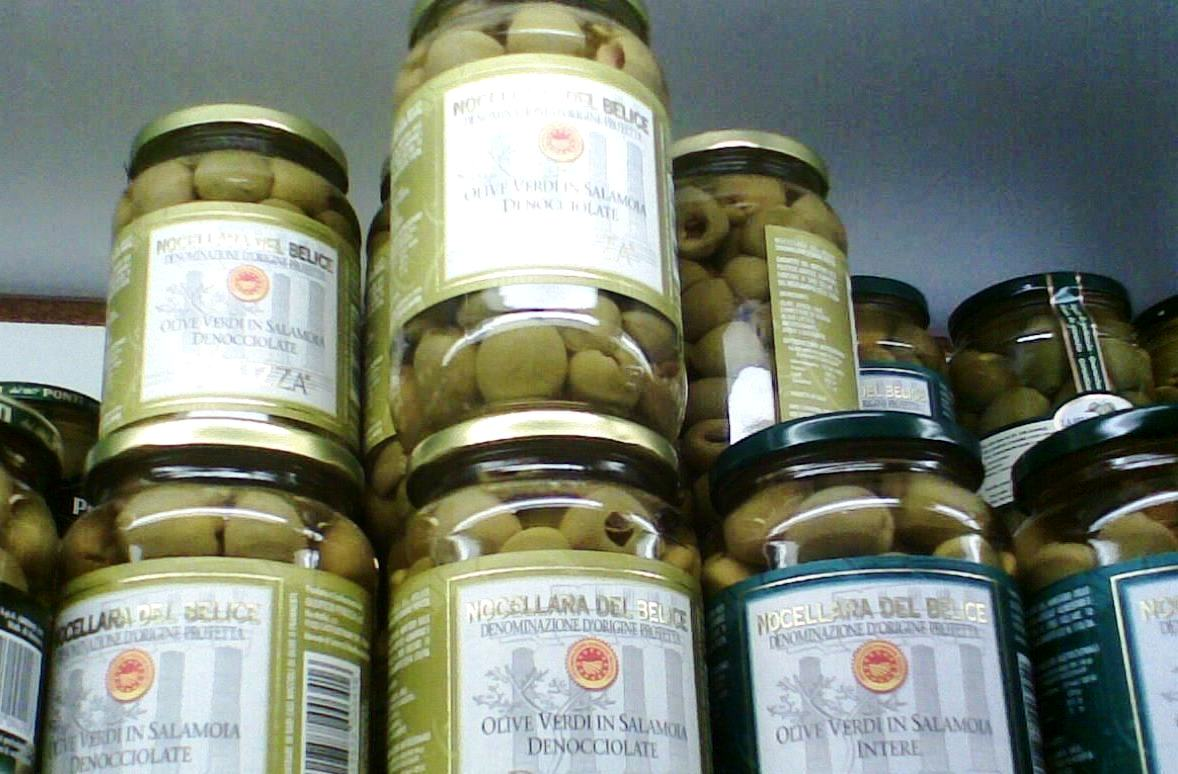 Nocellara del Belice DOP Pickled Olives in glass jars. On a shelf of a supermarket. Florence, Italy.